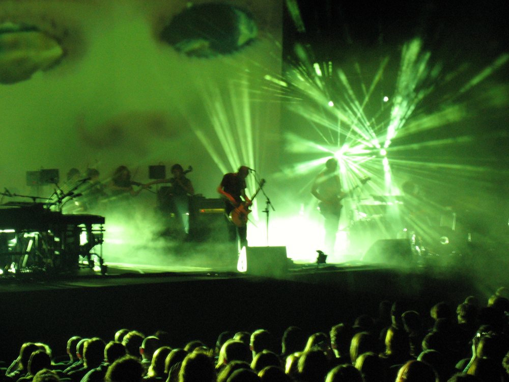 Sigur Rós performing in Barcelona, November 22, 2005.